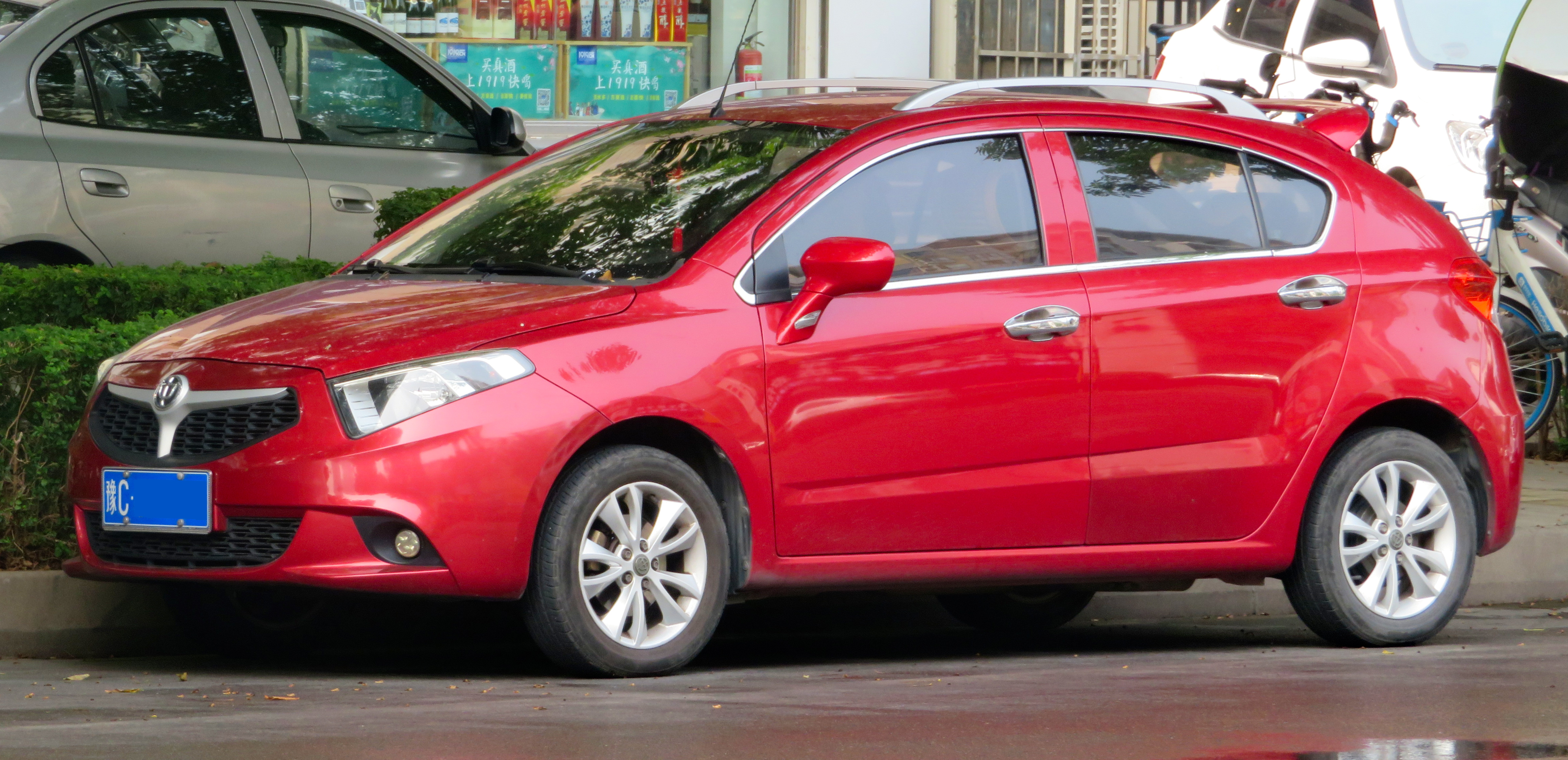 A 2016 Brilliance H220 hatchback photographed in Luoyang, Henan province, China